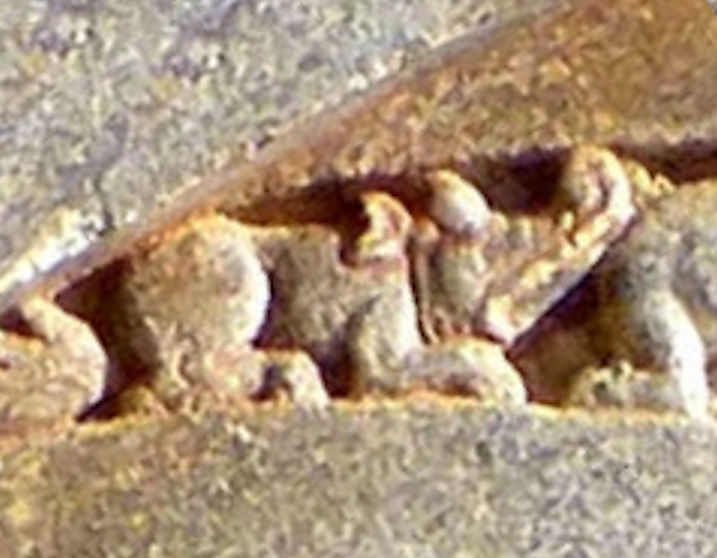 Lomas Rishi Makara